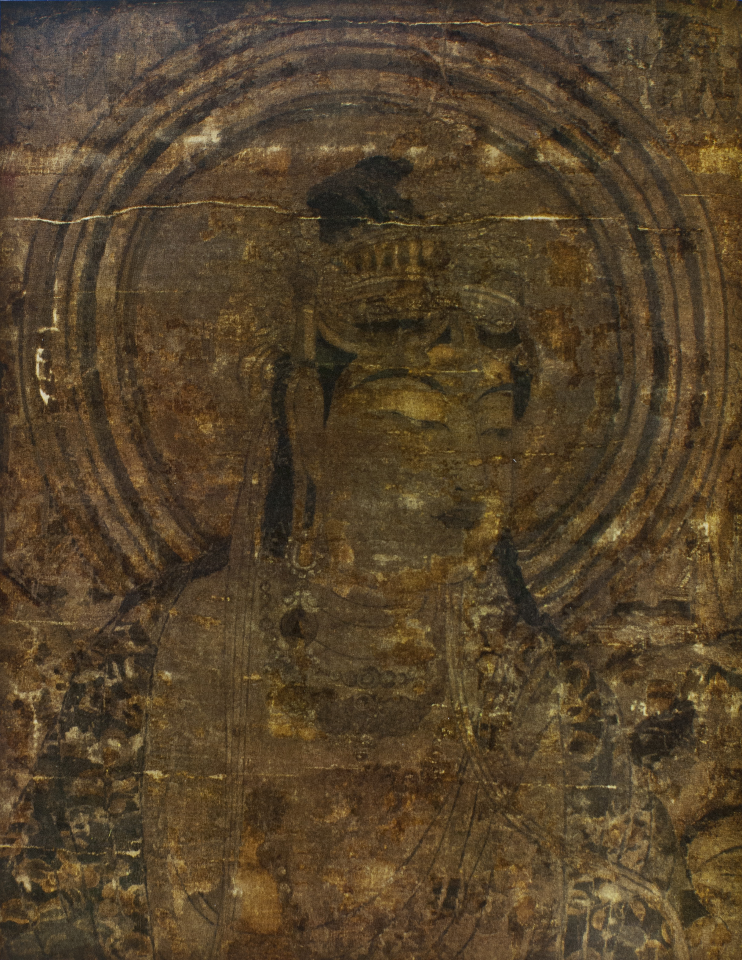 Taima Mandala, Taima-dera, Nara, Japan